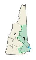 Image adapted from US fed gov't source Category:Congressional districts of New Hampshire Category:New Hampshire maps